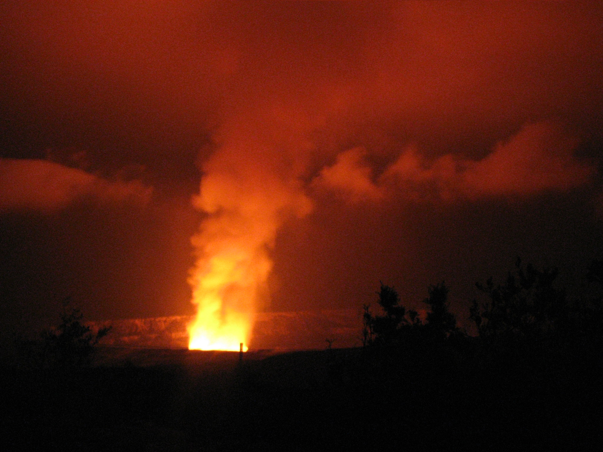 Halema'uma'u Crater at Volcanoes National Park